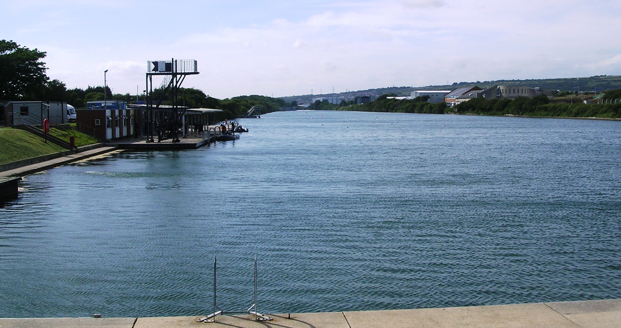 Photo taken by author, June 2008